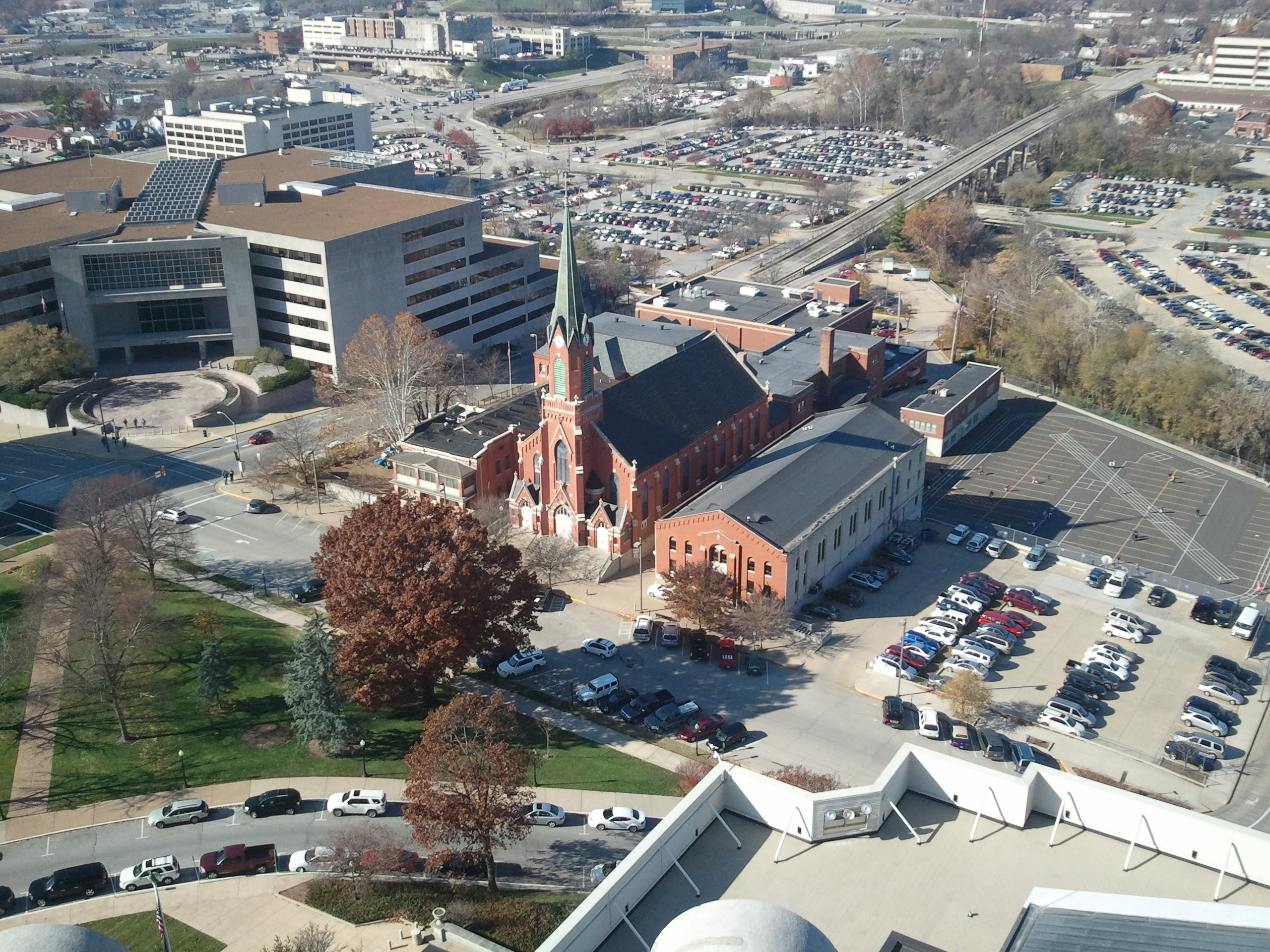 View of Saint Peter's Church in Jefferson City, MO as seen from the top of the state capital rotunda.